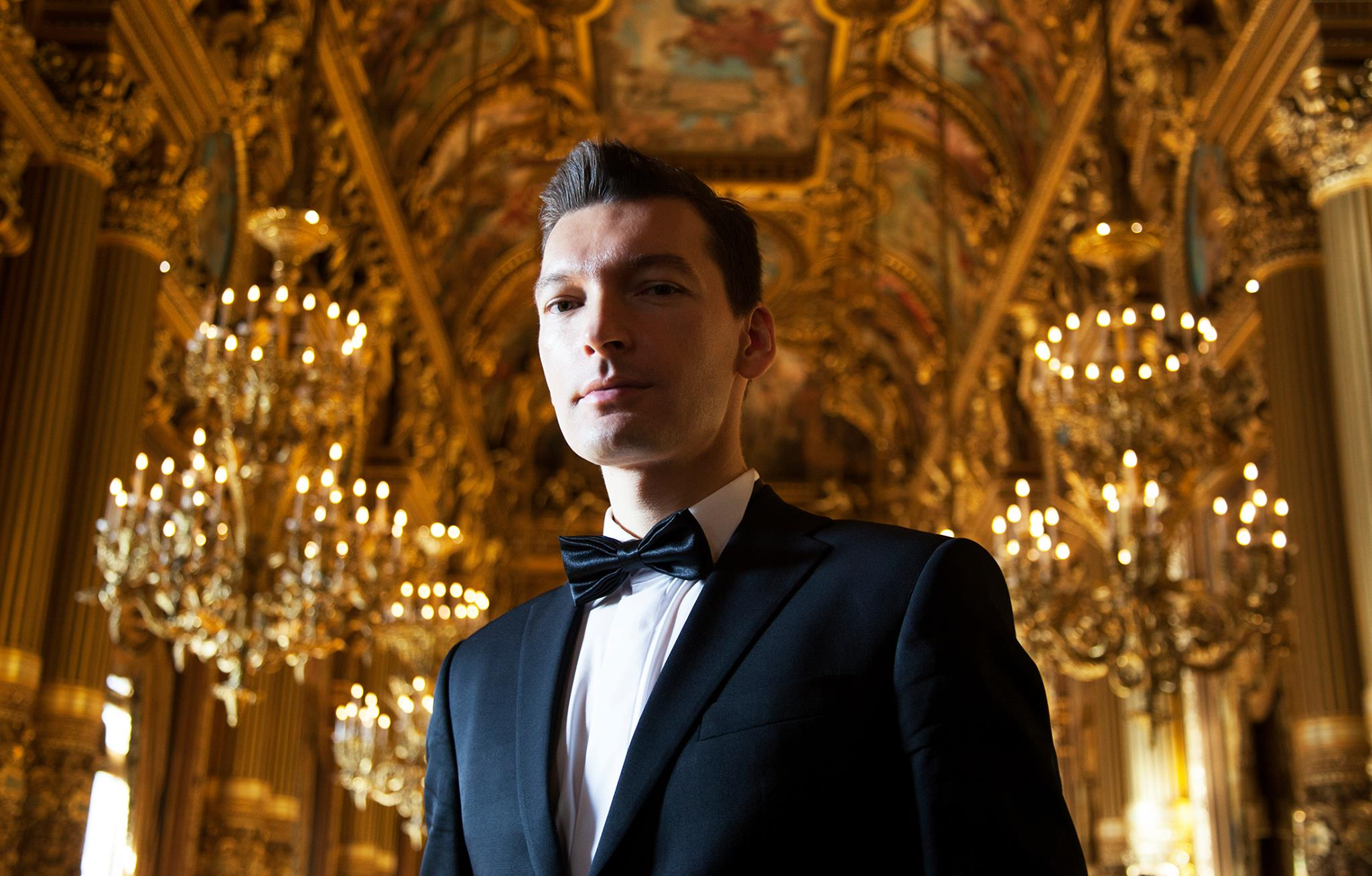 Aleh Lukashevich. Paris